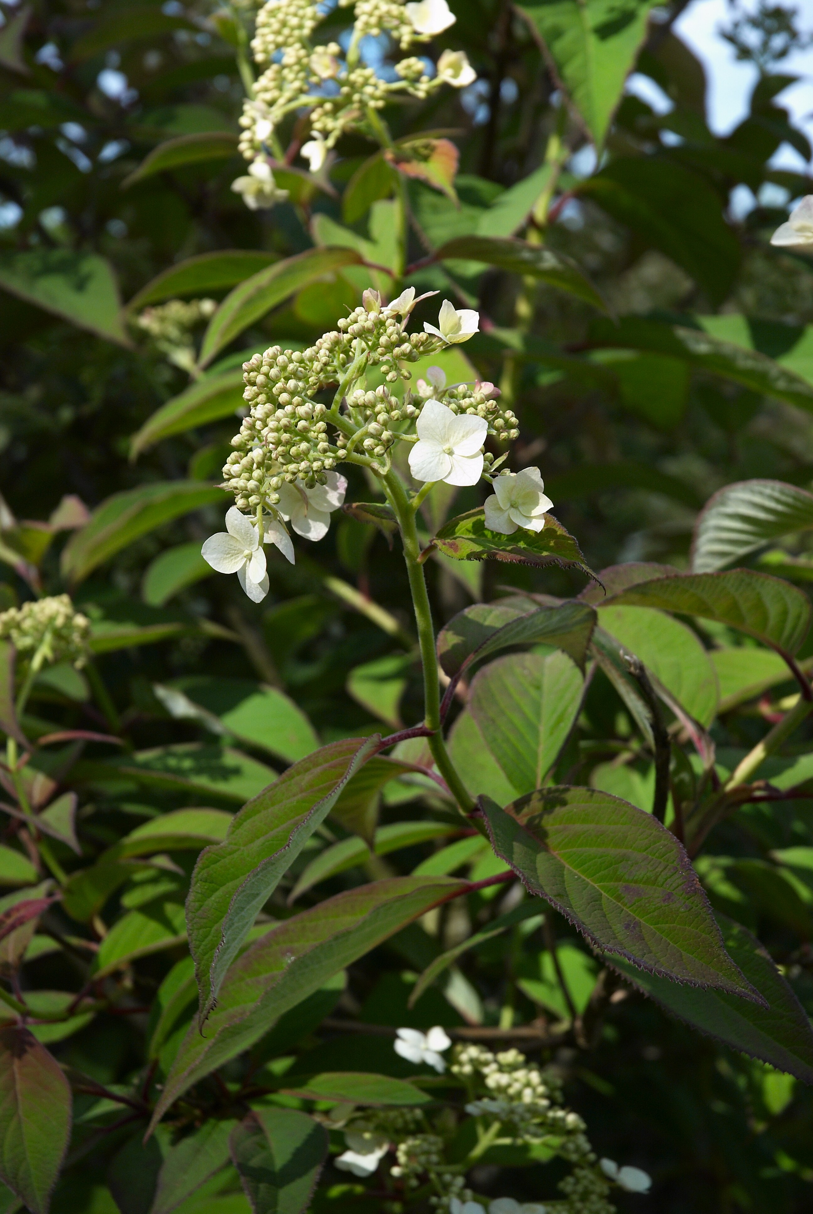 Hydrangea heteromalla 'Snowcap'. Photo taken in an arboriculture in Vossem, Belgium